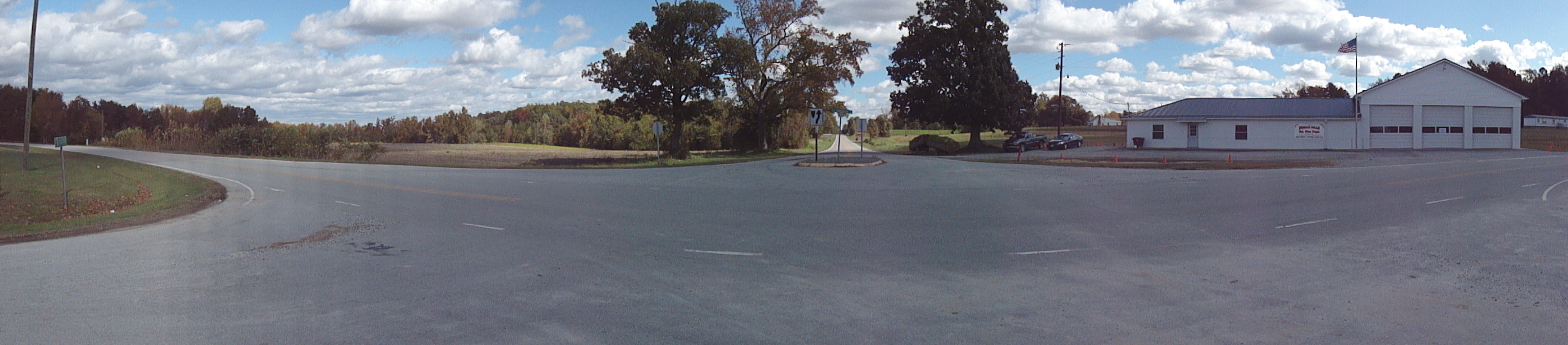 October 20, 2011